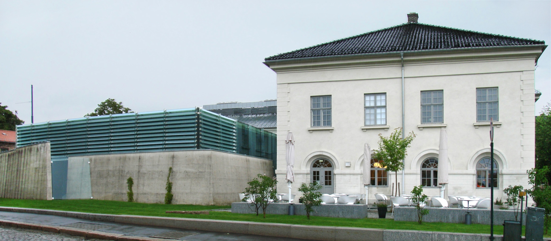 Norwegian National Museum of Architecture, Oslo. Main building designed by Christian Heinrich Grosch (1801–1865), extension by Sverre Fehn (1924–2009).